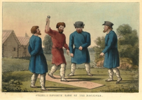 Svaika. A favorite game of the moscovites.